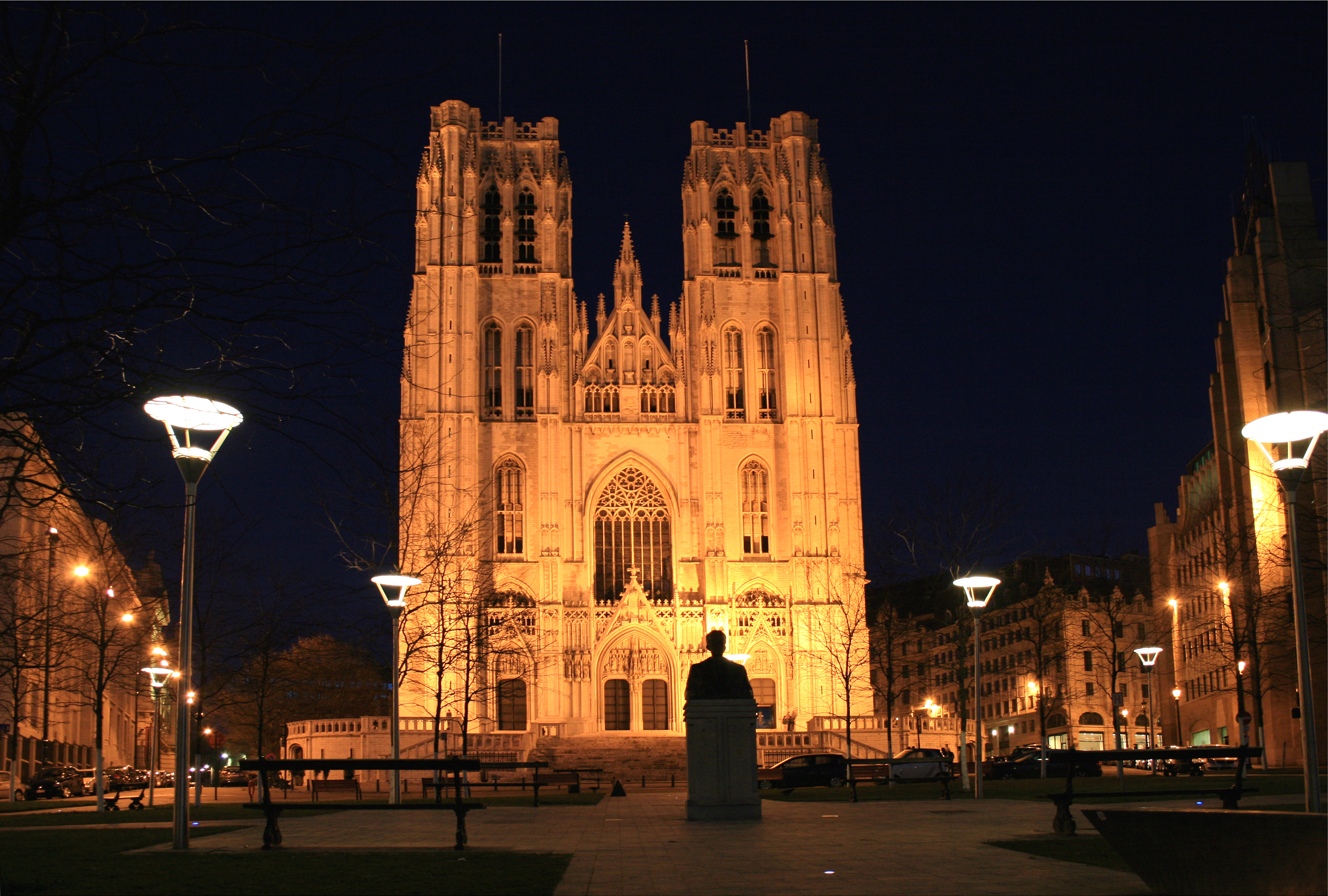 Cathedral St. Michel by night in Brussels, Belgium.